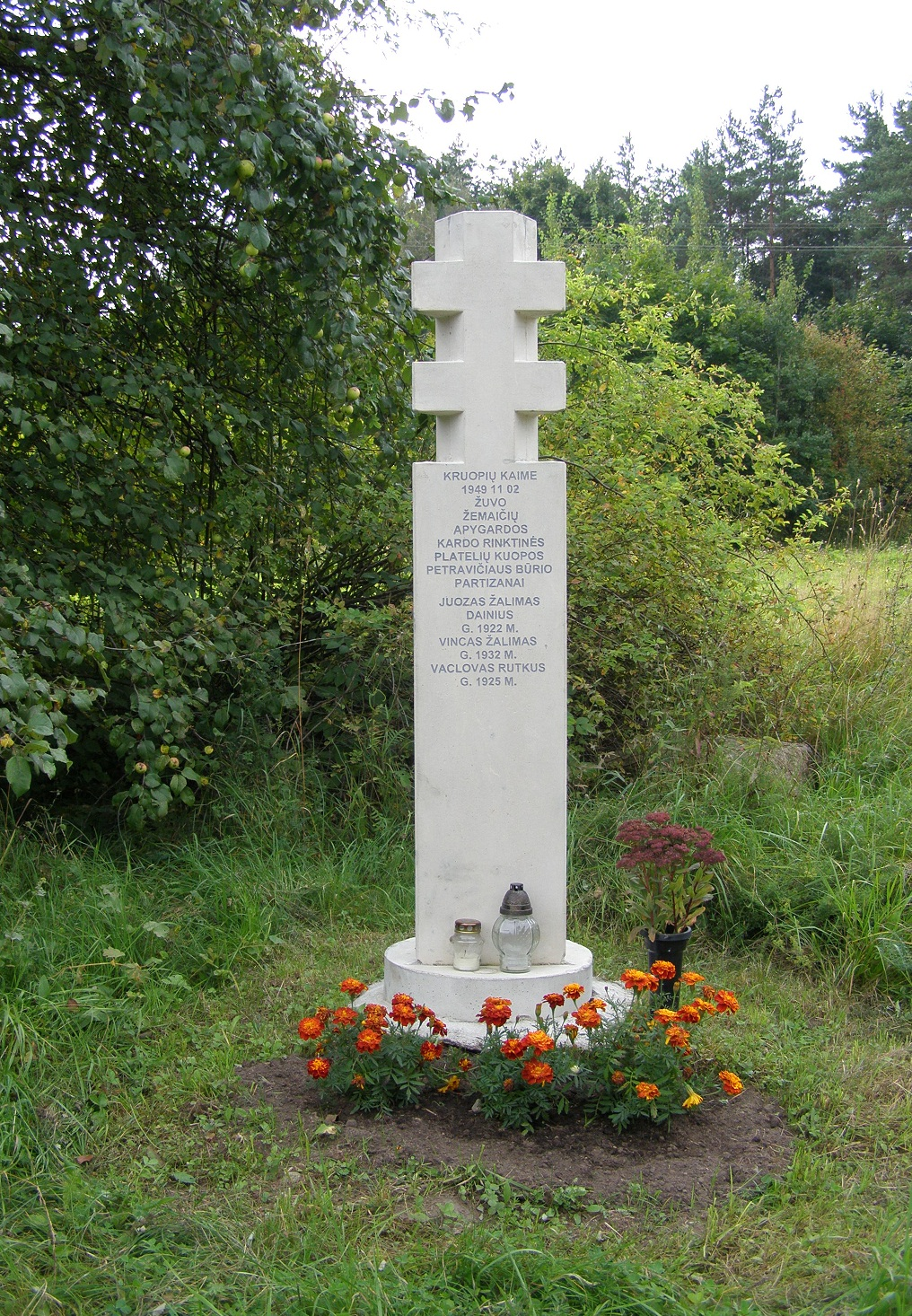 Kruopiai monument, Skuodas district, LithuaniaLietuvių: Kruopių paminklas partizanams, Skuodo rajonas, Lietuva